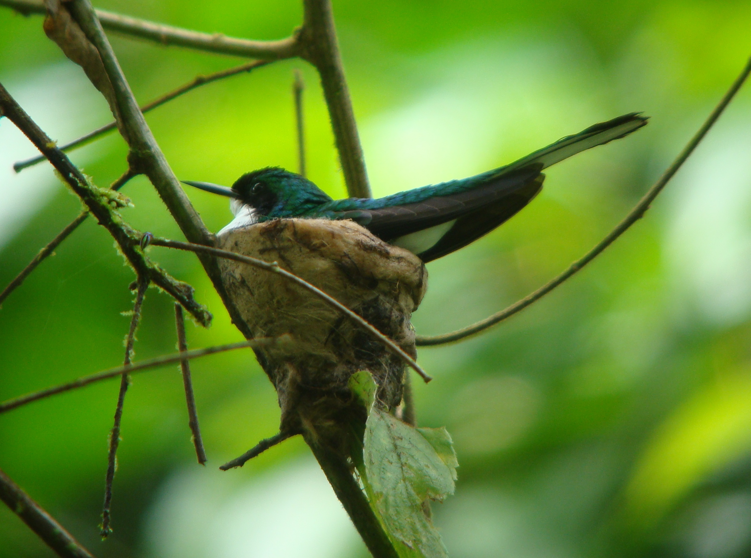 Heliothryx barroti (Purple-crowned Fairy) on nest at La Selva Biological Station, outside Puerto Viejo de Sarapiquí in Costa Rica